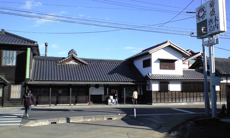 Kiuchi sake brewery in Ibaraki pref Japan